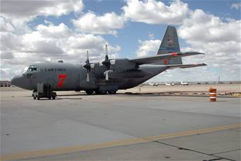 A MAFFS-capable C-130 sits on a ramp at Kirtland Air Force Base, N.M. The MAFFS unit is deployed to Kirtland to lend air support to wildfires in West Texas. (Air Force photo by Mara Minwegen) Source: USAF